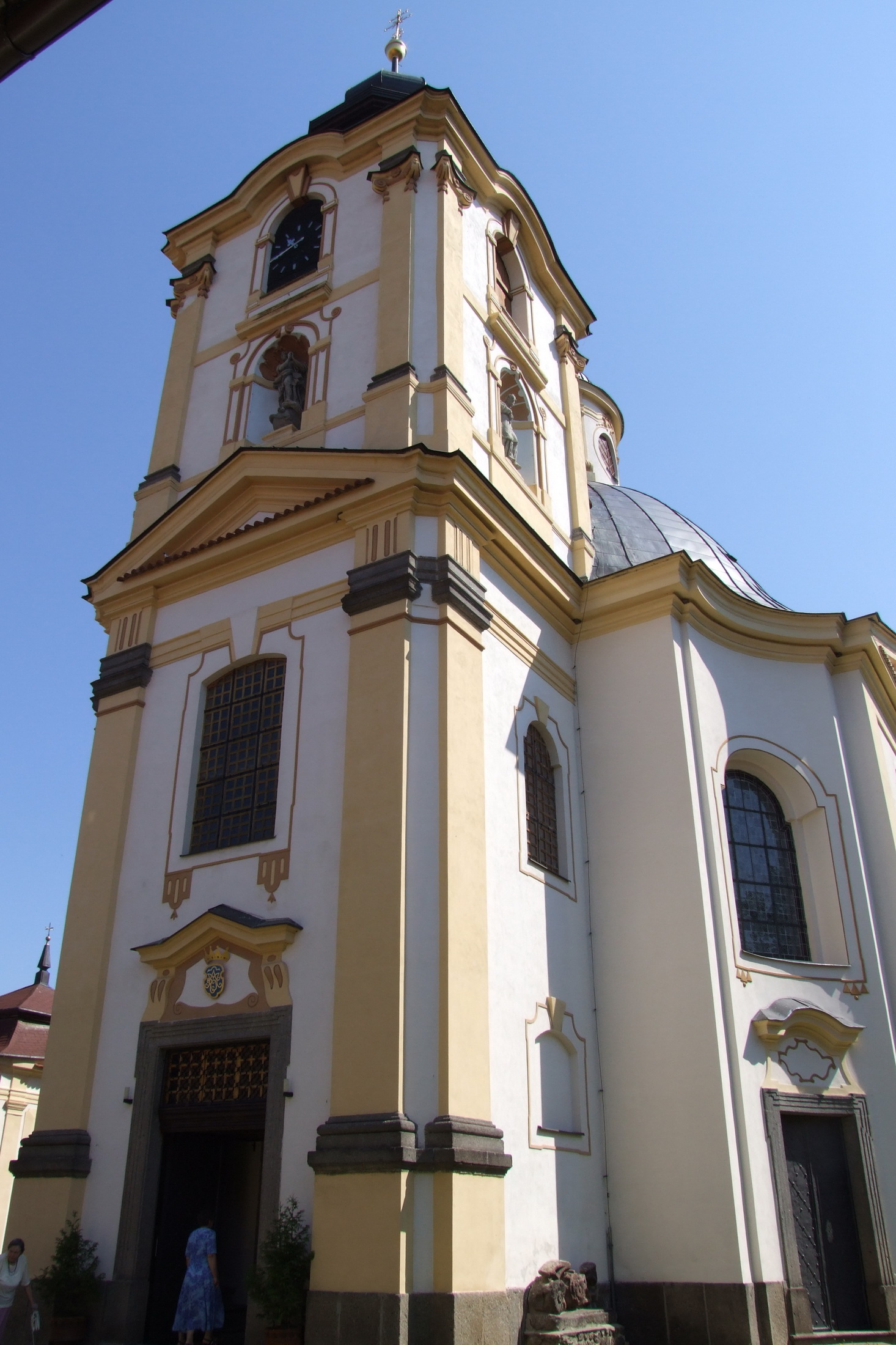 Our Lady's church